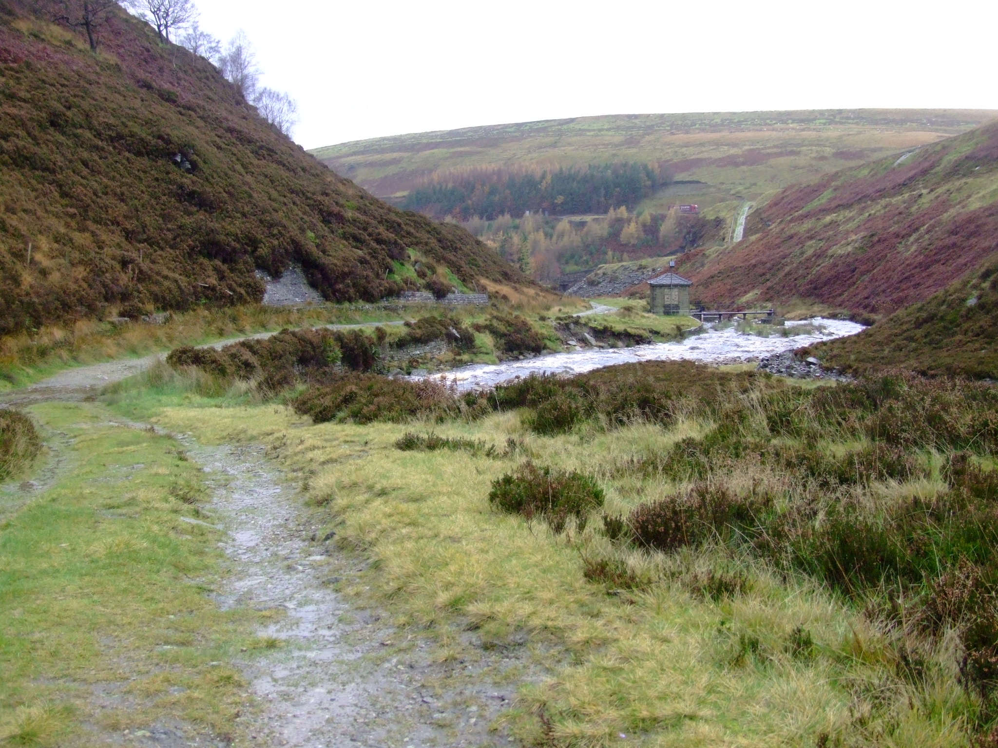 Longdendale in Derbyshire is the upper valley of the River Etherow. Woodhead Flow Measurement Station on the River Etherow. To the right is the A628 and Pikenaze Moor to the left Bleaklow. - Google Maps - Google Earth